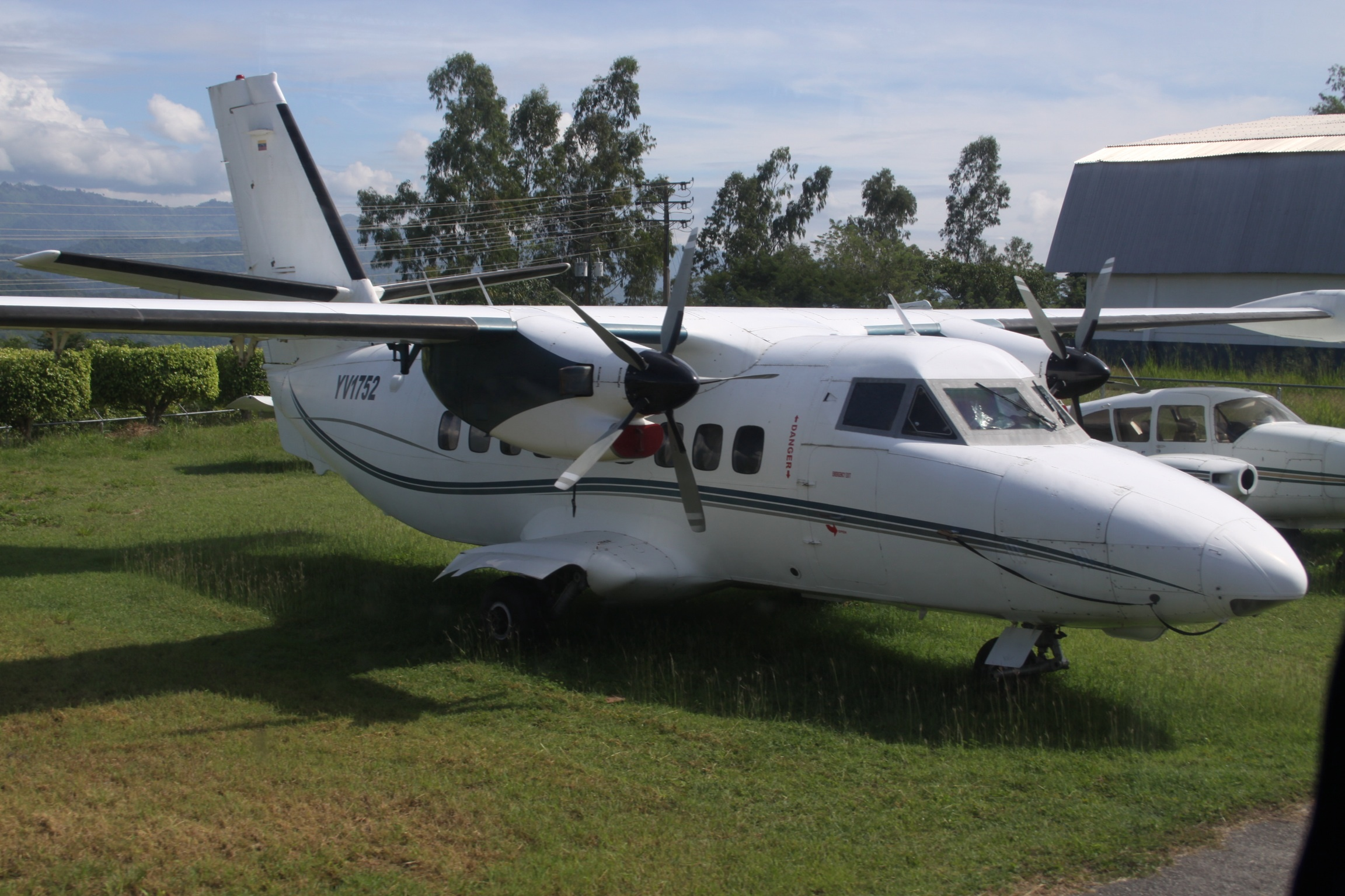 At Charallave Aeropuerto